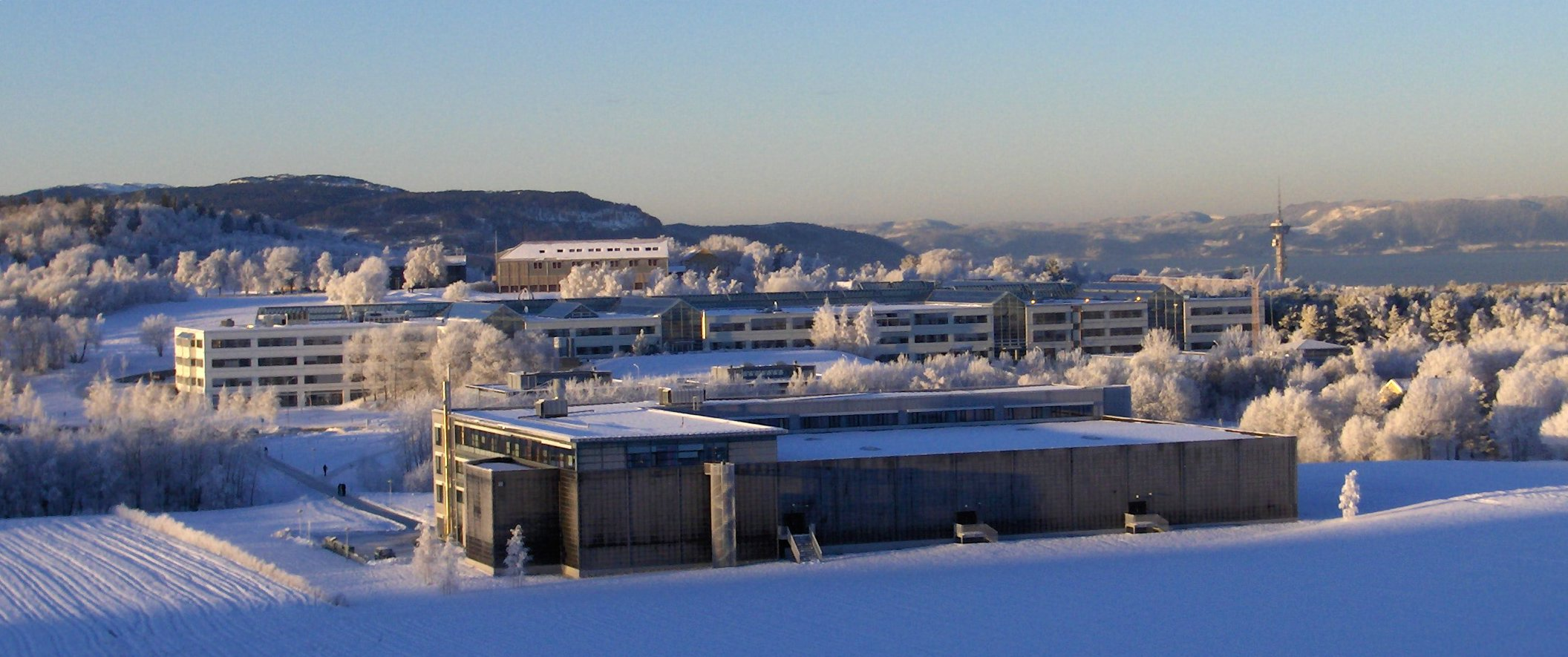 University buildings at Dragvoll, NTNU, Trondheim, Norway. Architect: Henning Larsen.